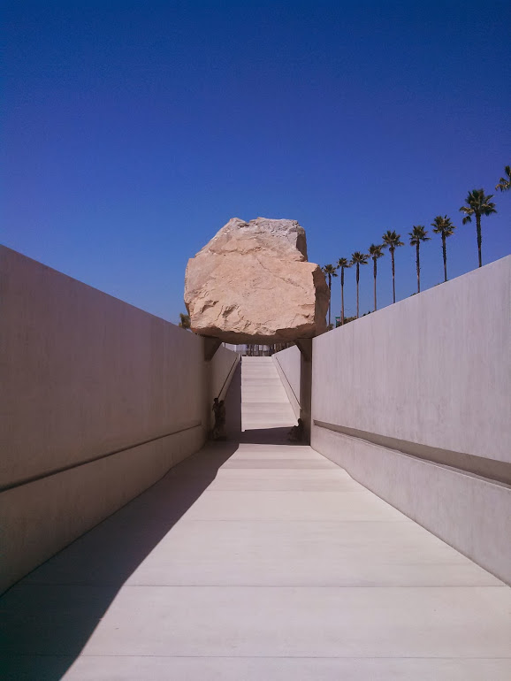 Levitated Mass Art Exhibit at LACMA